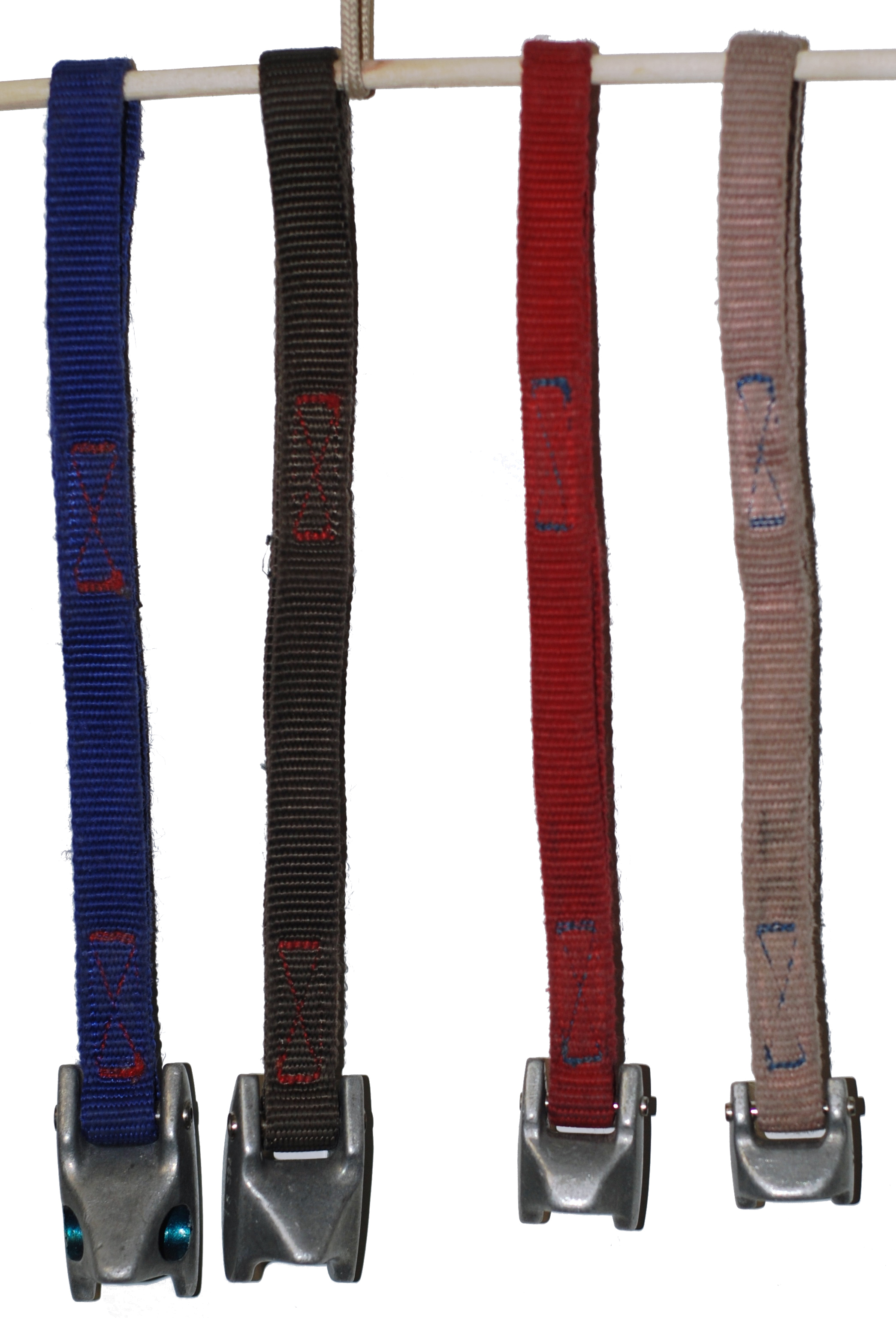 Lowe tricams